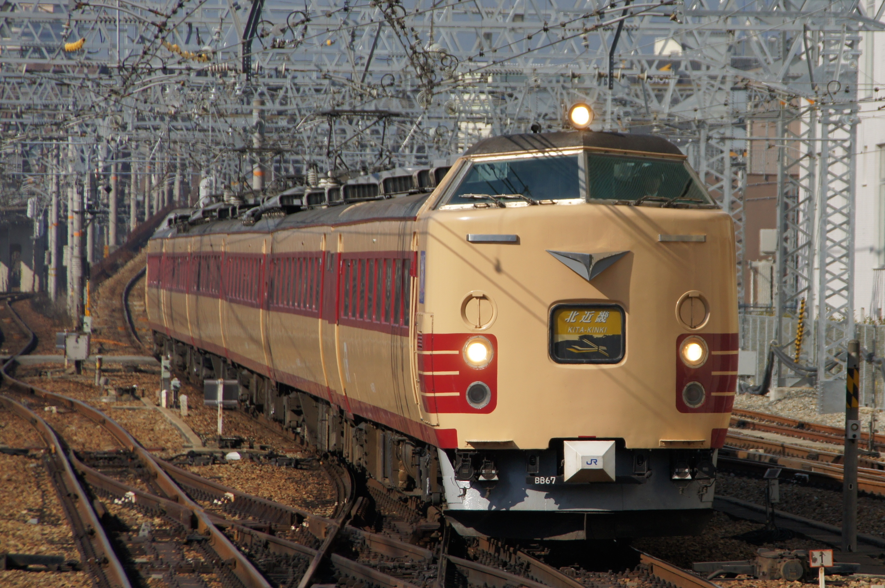 JR West 183 series 6-car EMU set BB67 on a Kitakinki limited express service